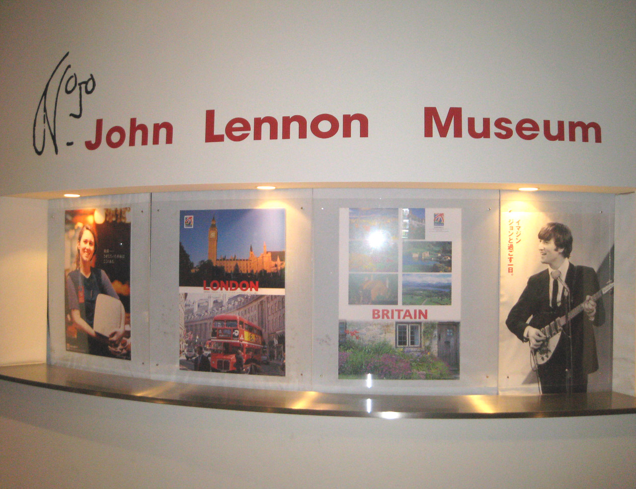 I took this photo myself in Saitama, Japan in October 2007.